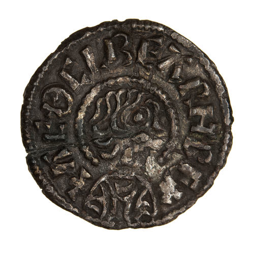 Coin of King Æthelberht of Wessex c. 862 downloaded from [1].